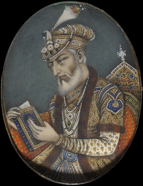 This painting depicts Aurangzeb (1658 - 1707) reading the koran.